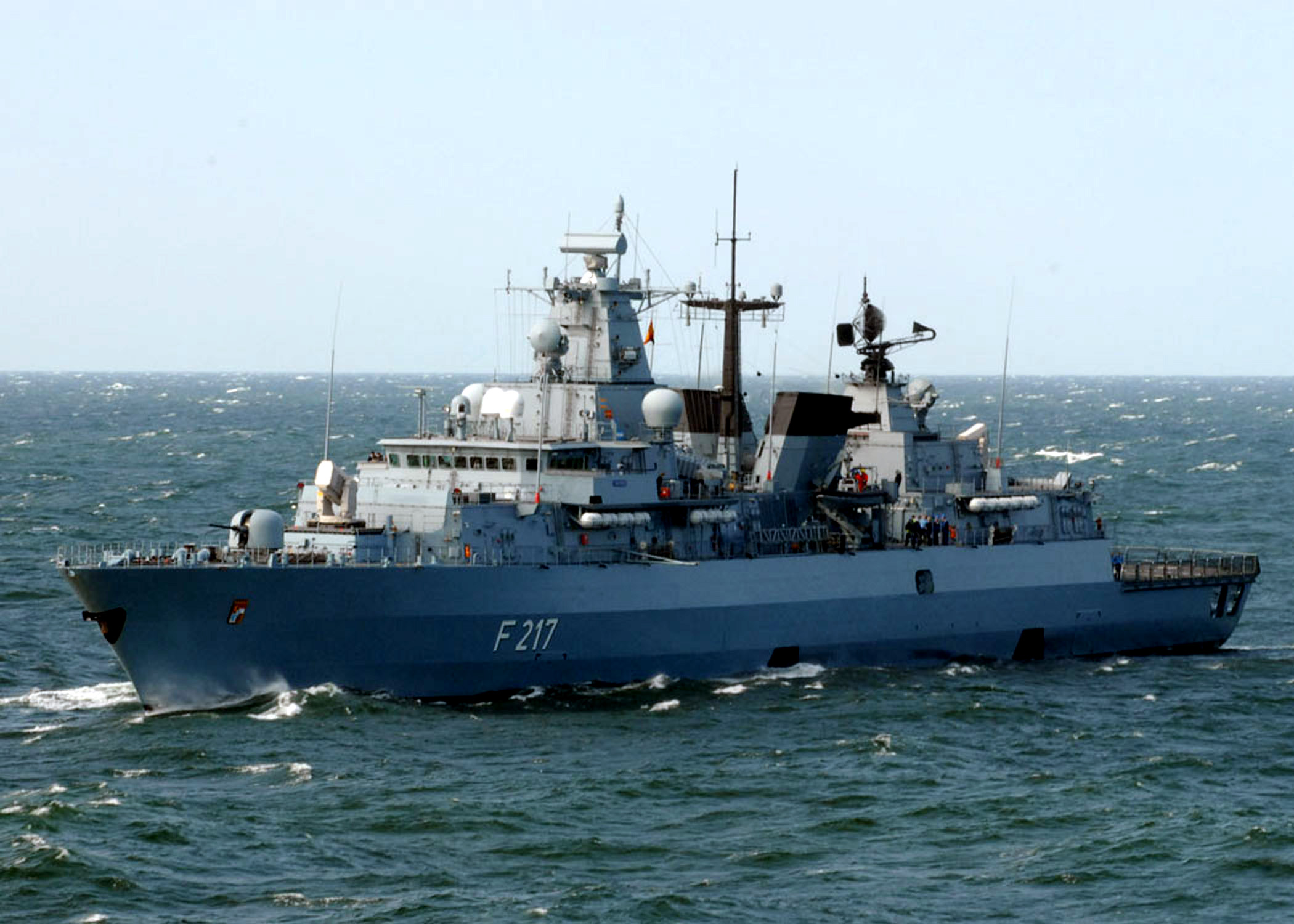 The German Brandenburg-class frigate Bayern (F 217) approaches the U.S. guided-missile cruiser USS Gettysburg (CG-64), not visible, during an exercise supporting Baltic Operations (BALTOPS). "BALTOPS" is an annual international exercise involving 13 countries.